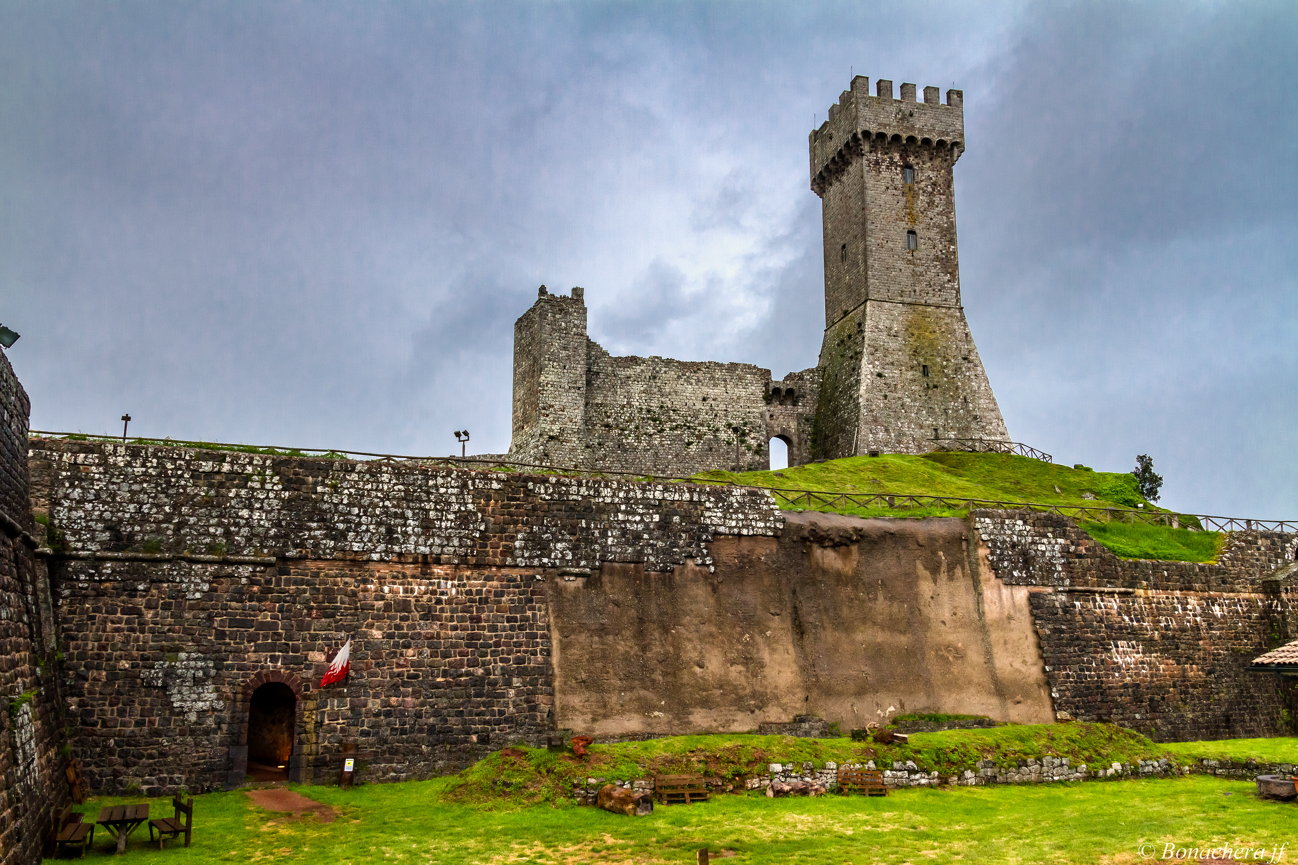 la forteresse Aldobrandesque qui domine le village de Radicofani